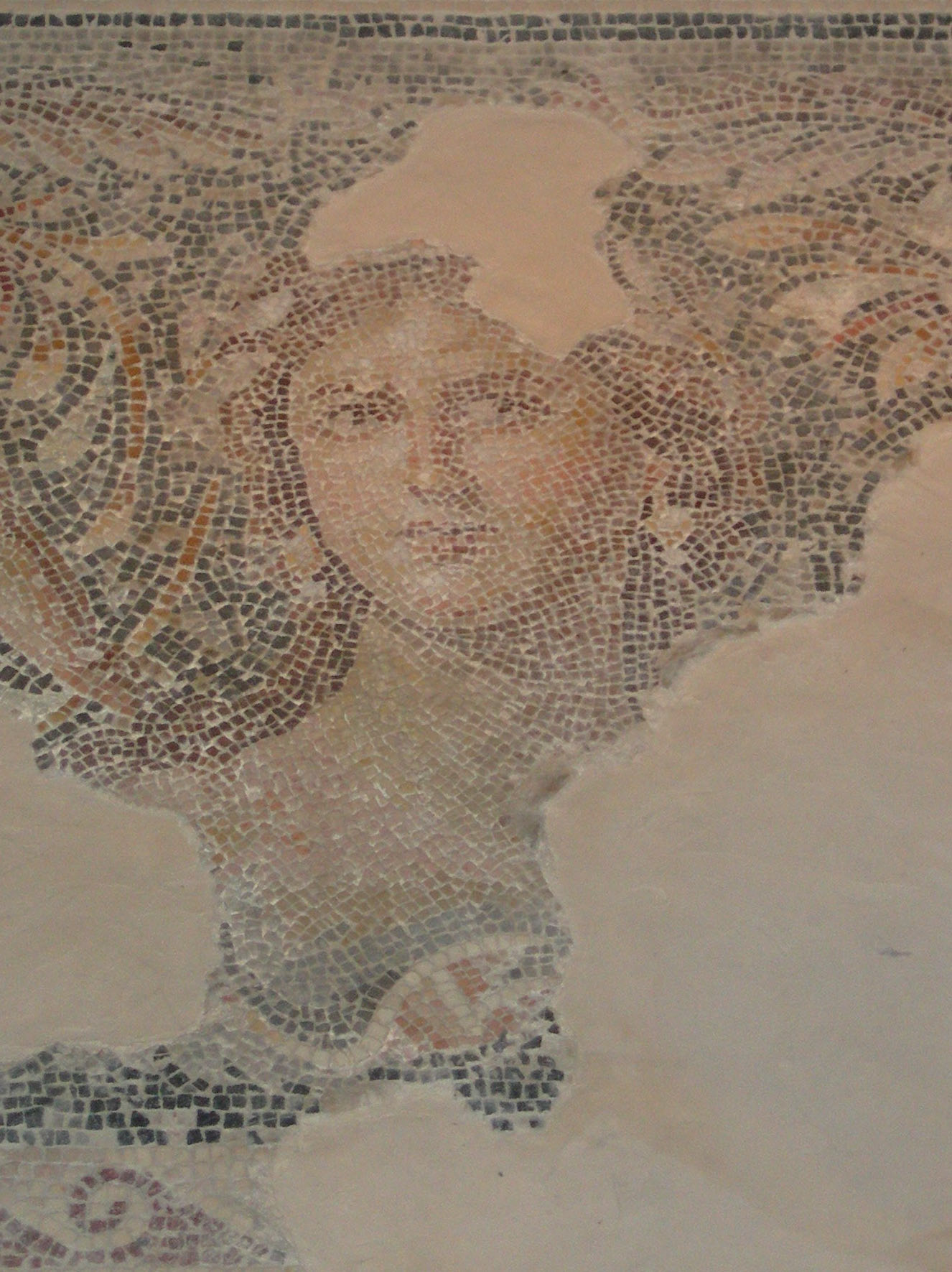 I, GolandOmer, took this picture on the 3.6.2006. This archeological mosaic was created in the 3rd century CE, long before the advent of copyright law.